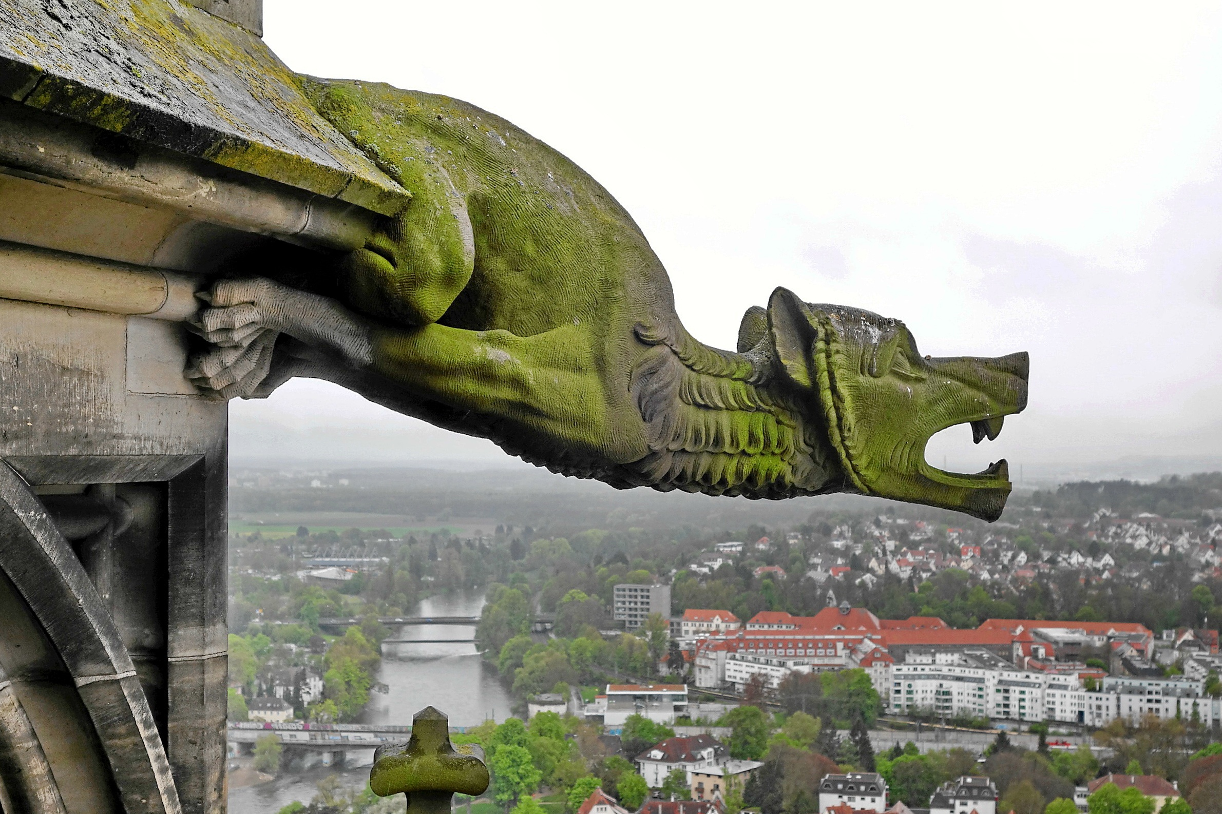 Gargoyle of Ulm Minster